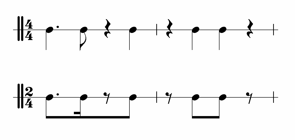 The „clave del son“ rhythmic pattern, frequently used in Latin music, in its so-called 3-2 or ‚reverse‘ direction. The rhythm is shown here in ‚modern‘ 4/4-time notation popular in Europe and the US as well as in its ‚traditional‘ 2/4 form, still favored by many Latin musicians. File by the uploader using Music Publisher 5.